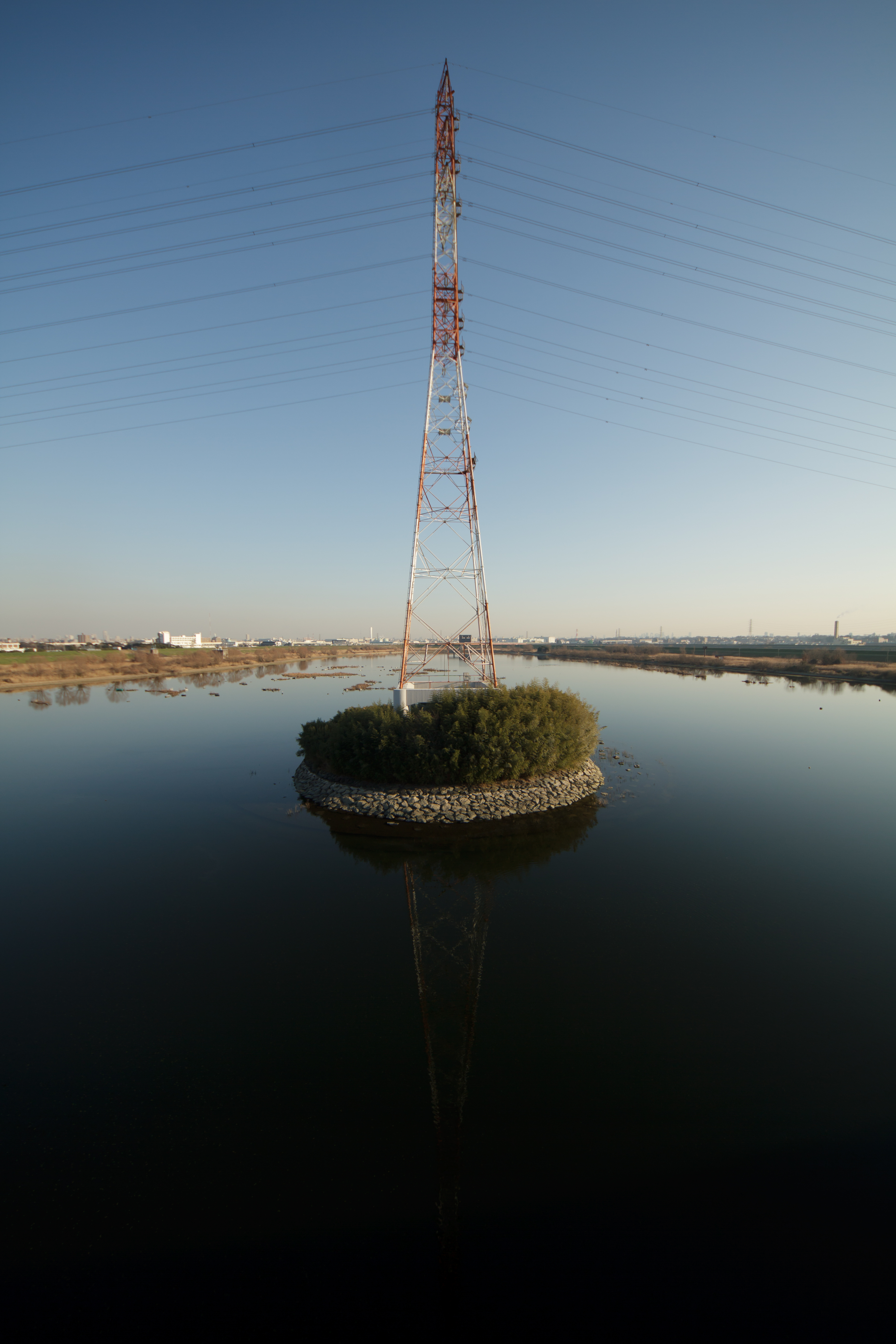 I purchased a book that describe great spot for watching birds. The book describes that peregrine falcons lives the tower on winter and you can watch hunting show if you are lucky. Actually I'm not lucky today. In case of I'm not lucky, I bring a ultra wide lens to take a pic of landscape. This is taken from a huge bridge, and it's a little scary. I usually don't afraid of heights, but not over a middle of huge lake! Even more, every time a big truck pass away, the bridge shakes! I think this pic describes why it's scary. Anyway it's OK, because I like roller coaster and the bridge feels like I'm riding on it LOL